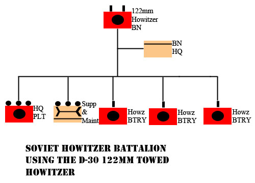 Order of battle graphic for 1980s Soviet towed howitzer artillery battalion